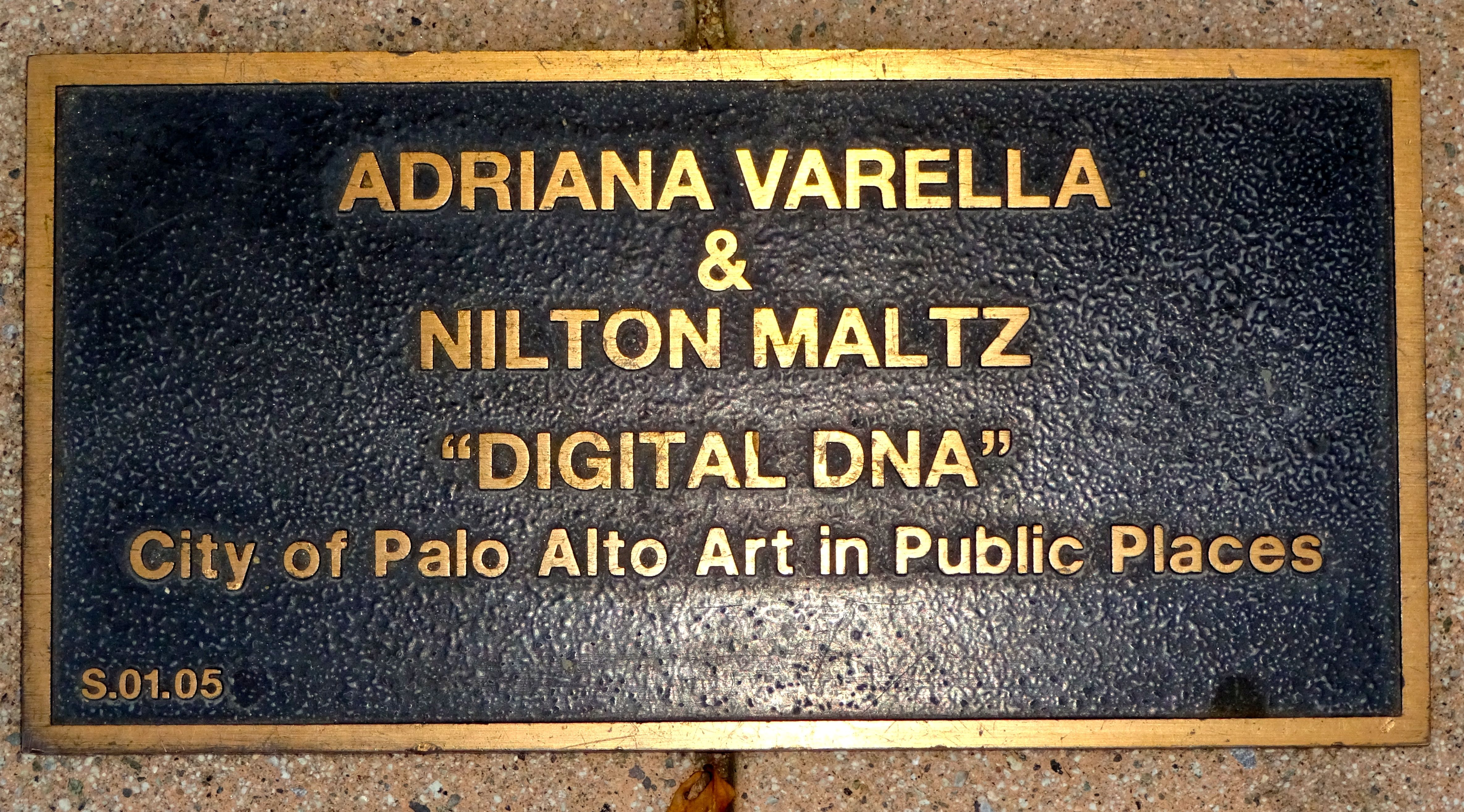 Plaque at the base of the Digital DNA sculpture in Litton Plaza